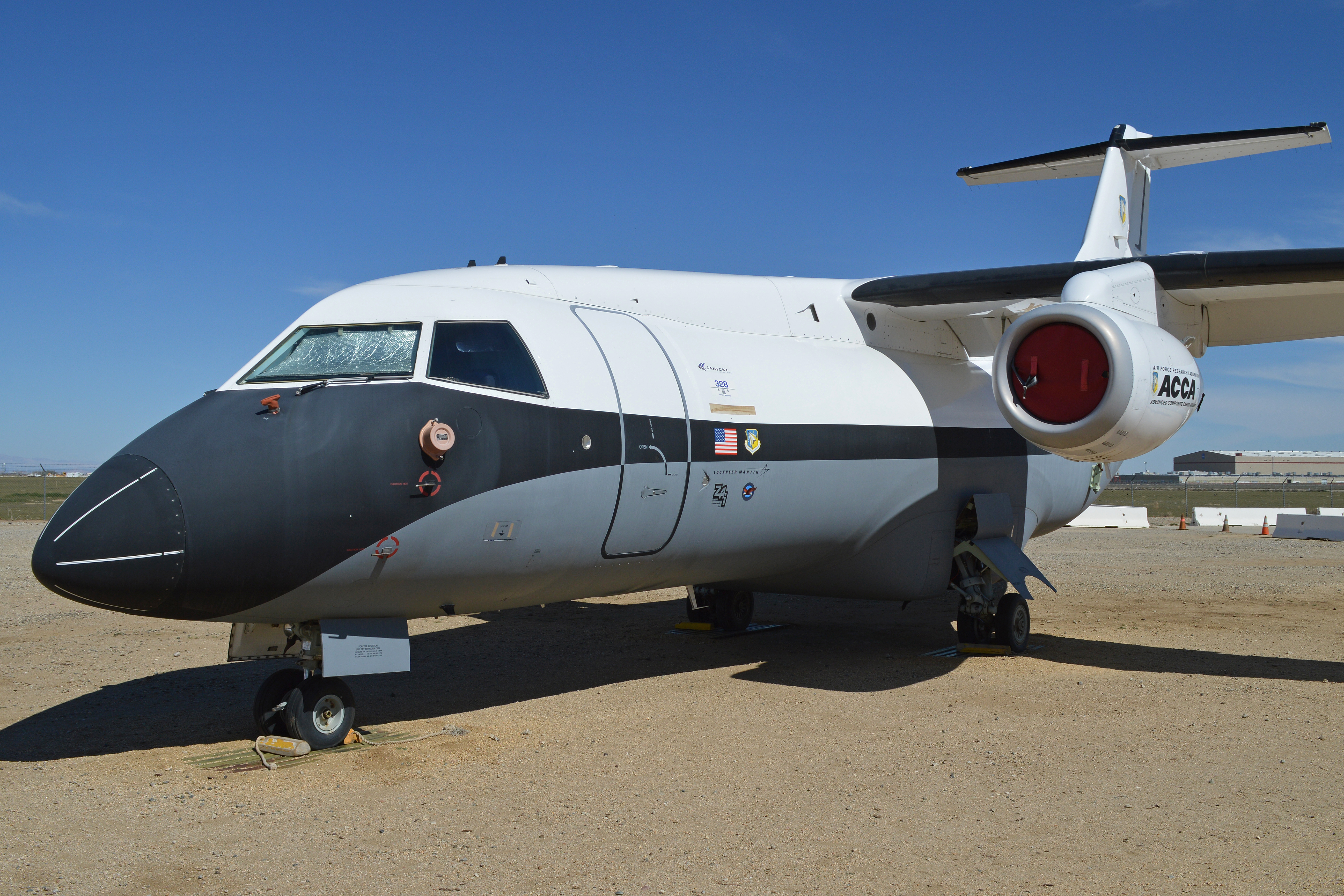 c/n 3099. The X-55 was a technology demonstrator for the use of advanced composite materials in an aircraft fuselage. The chosen airframe was a Dornier 328-300 (Jet) which was fitted with a new, one piece fuselage, to which the original nose and wings were attached. It first flew in June 2009. On display at the Joe Davies Heritage Airpark, Palmdale, CA, USA. 29-2-2016